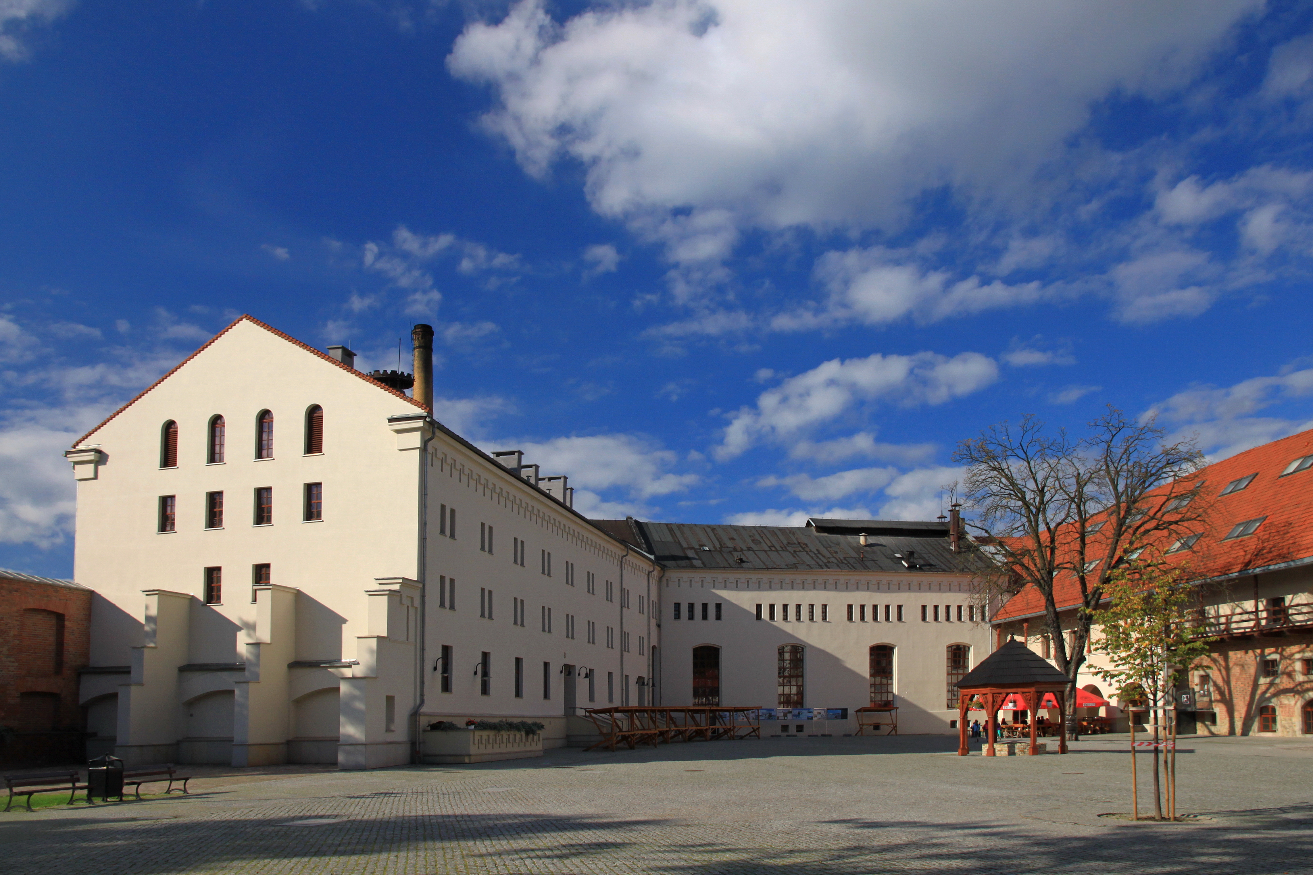 Racibórz, castle, build in 13th/14th century